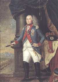 Portrait of Louis, Prince of Nassau-Saarbrücken (1745-1794)